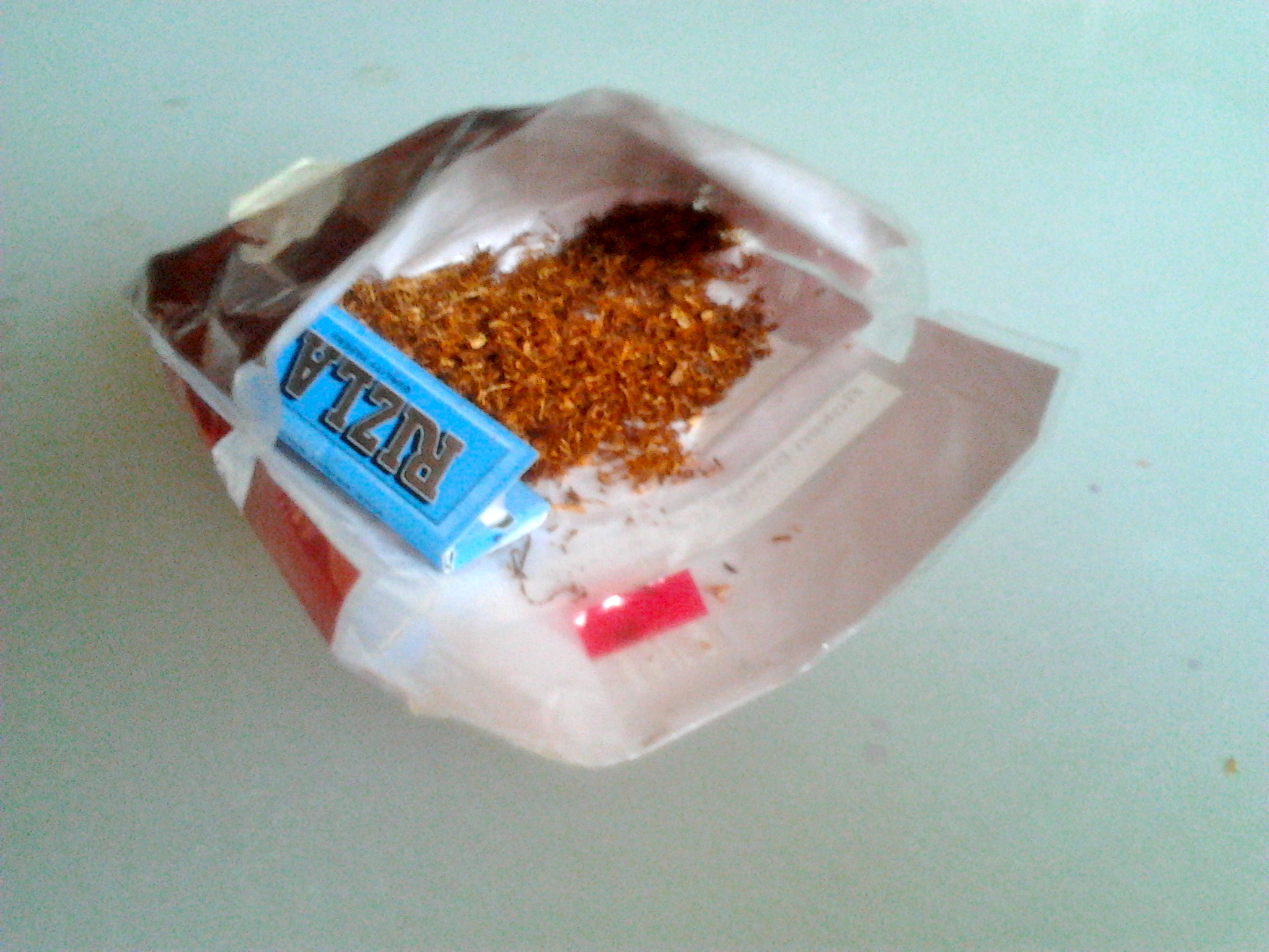 The stuff you smoke if the tobacco shop is closed for the weekend